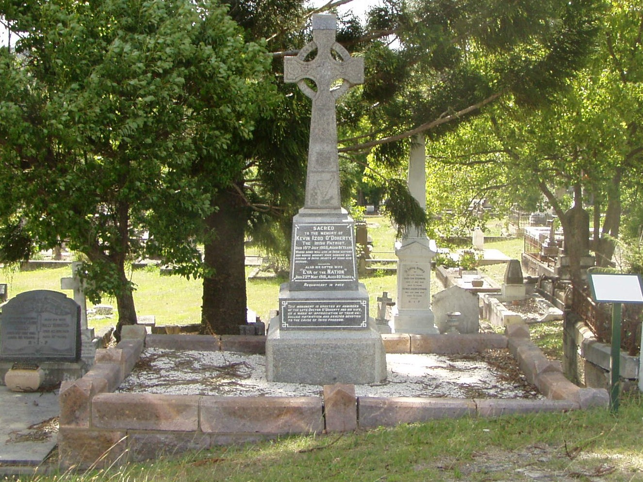 Monument at the grave of Kevin Izod O'Doherty at Brisbane's Toowong Cemetery